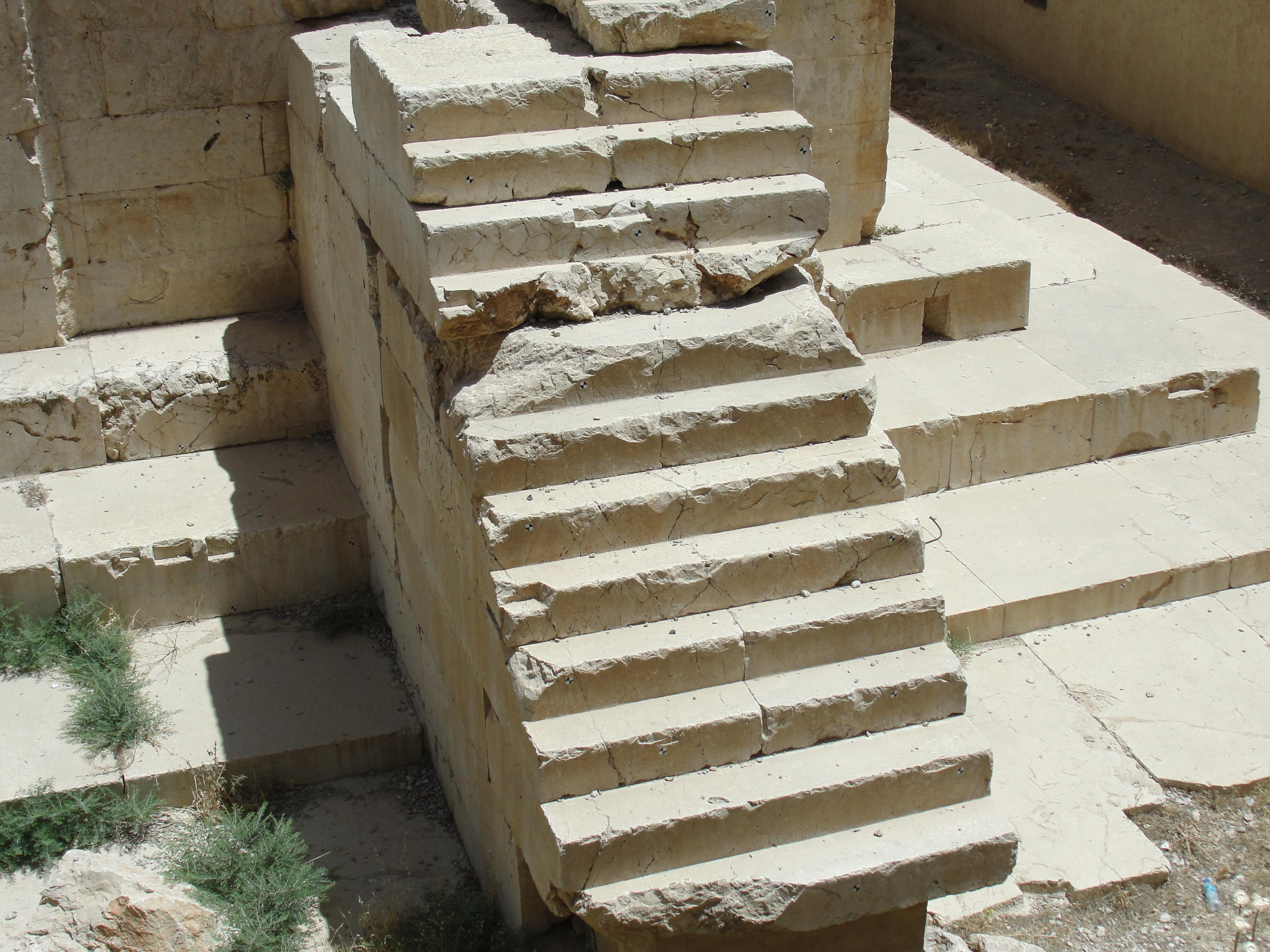 Stairs of Ka'ba-ye Zartosht in Naqsh-e-Rostam, Iran